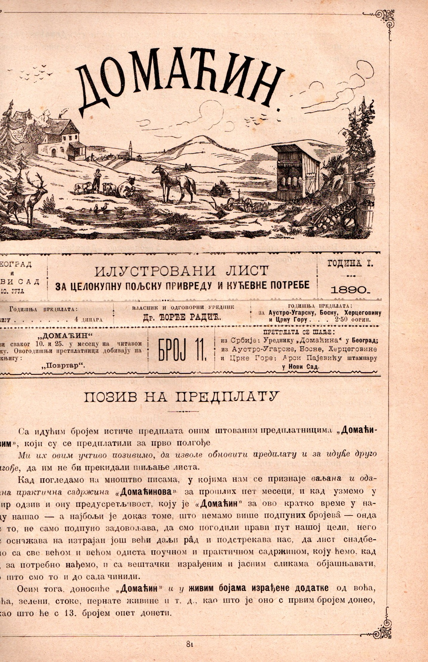 Journal Domacin, 1890, No 11, page 81 Srpski (latinica): Korice časopisa Domaćin iz 1890. godine, broj 11, strana 81